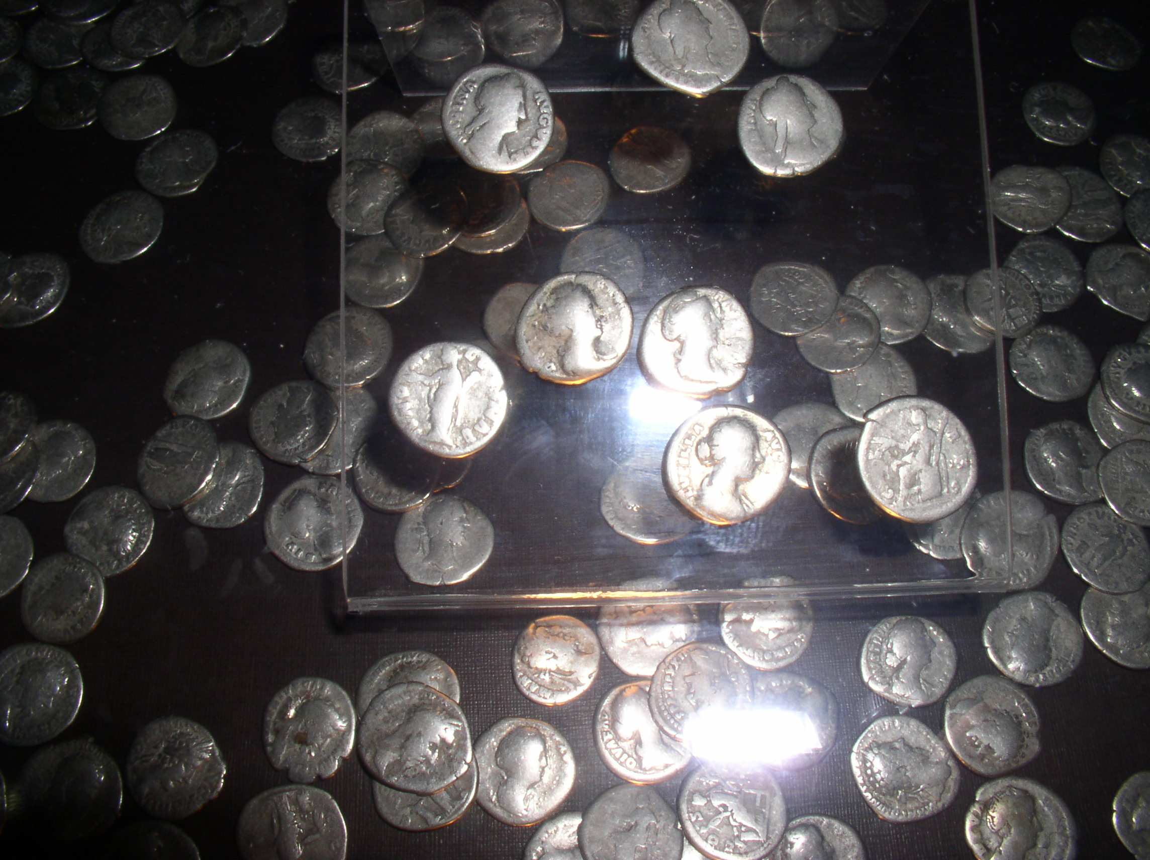 Roman Coins Treasure. 1st – 2nd century AD. National museum of history and culture of Belarus. Karl Marx street, 12. Minsk, Belarus.